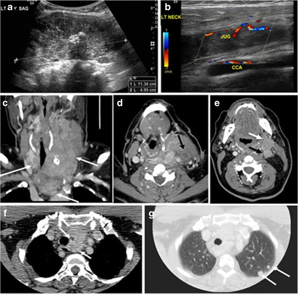 For context, see Computed tomography of the thyroid.